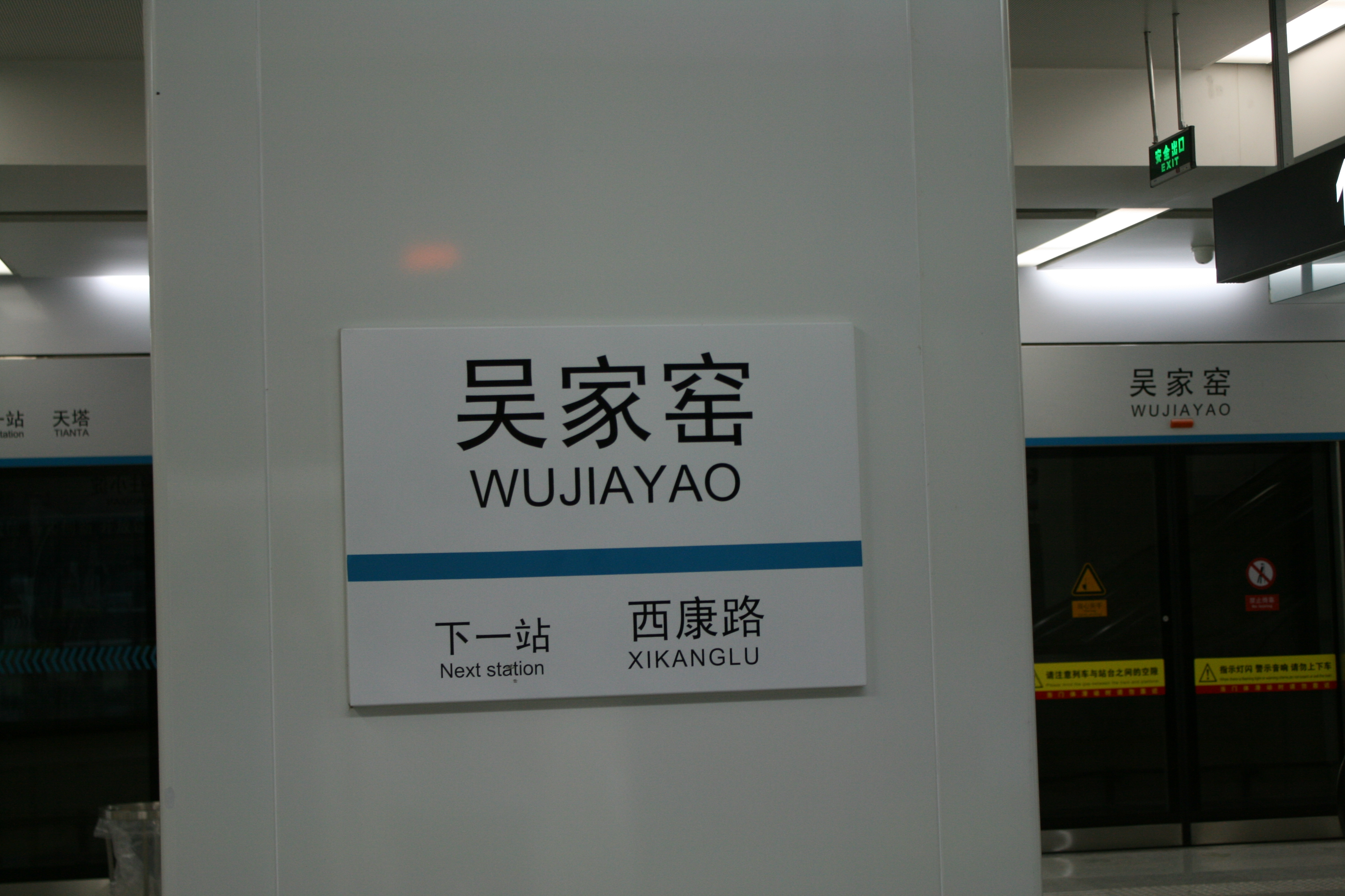 tianjin metro line 3 the WUJIAYAO Station ...0003